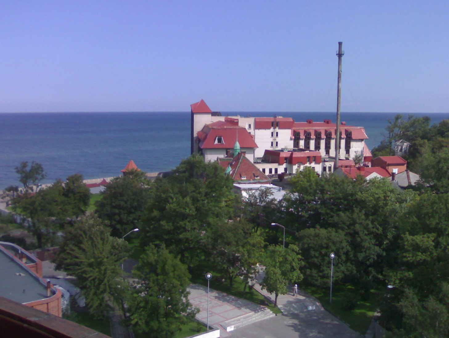 Baltic sea near Zelenogradsk, Kaliningrad district, Russia